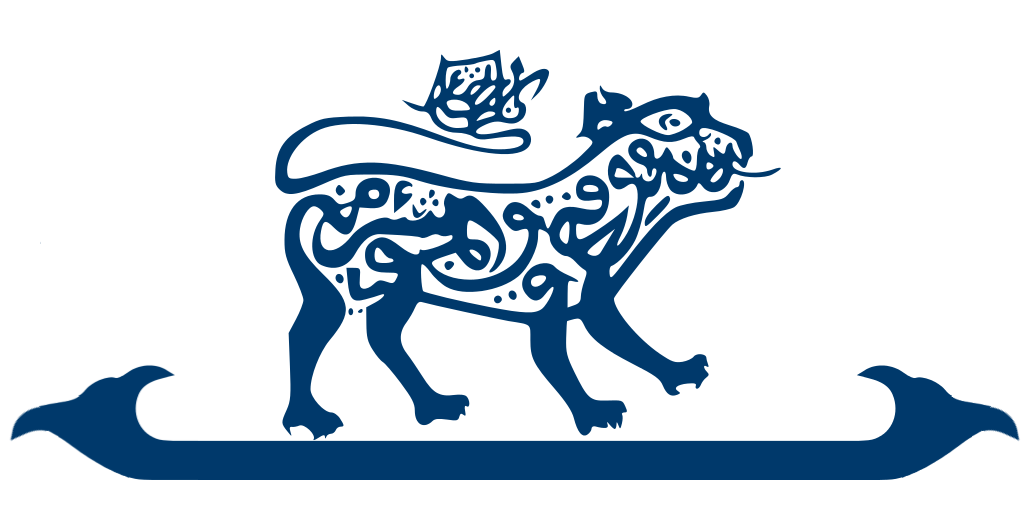 Flag of Kelantan state in Malaysia from 1912-1923